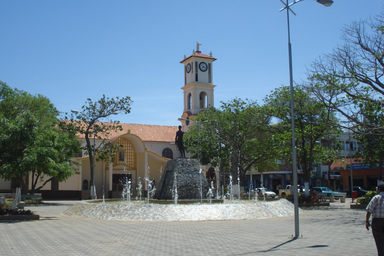 Plaza del Obrero (Worker's square), Punto Fijo, Venezuela.